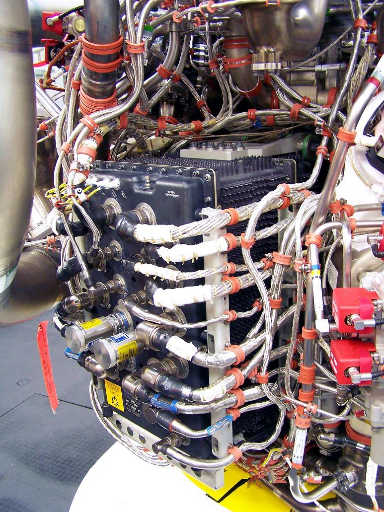 Space Shuttle Main Engine (SSME) Block II Controller.